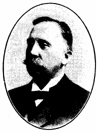 Johan Olof Ramstedt,1852-1935, Swedish prime minister.